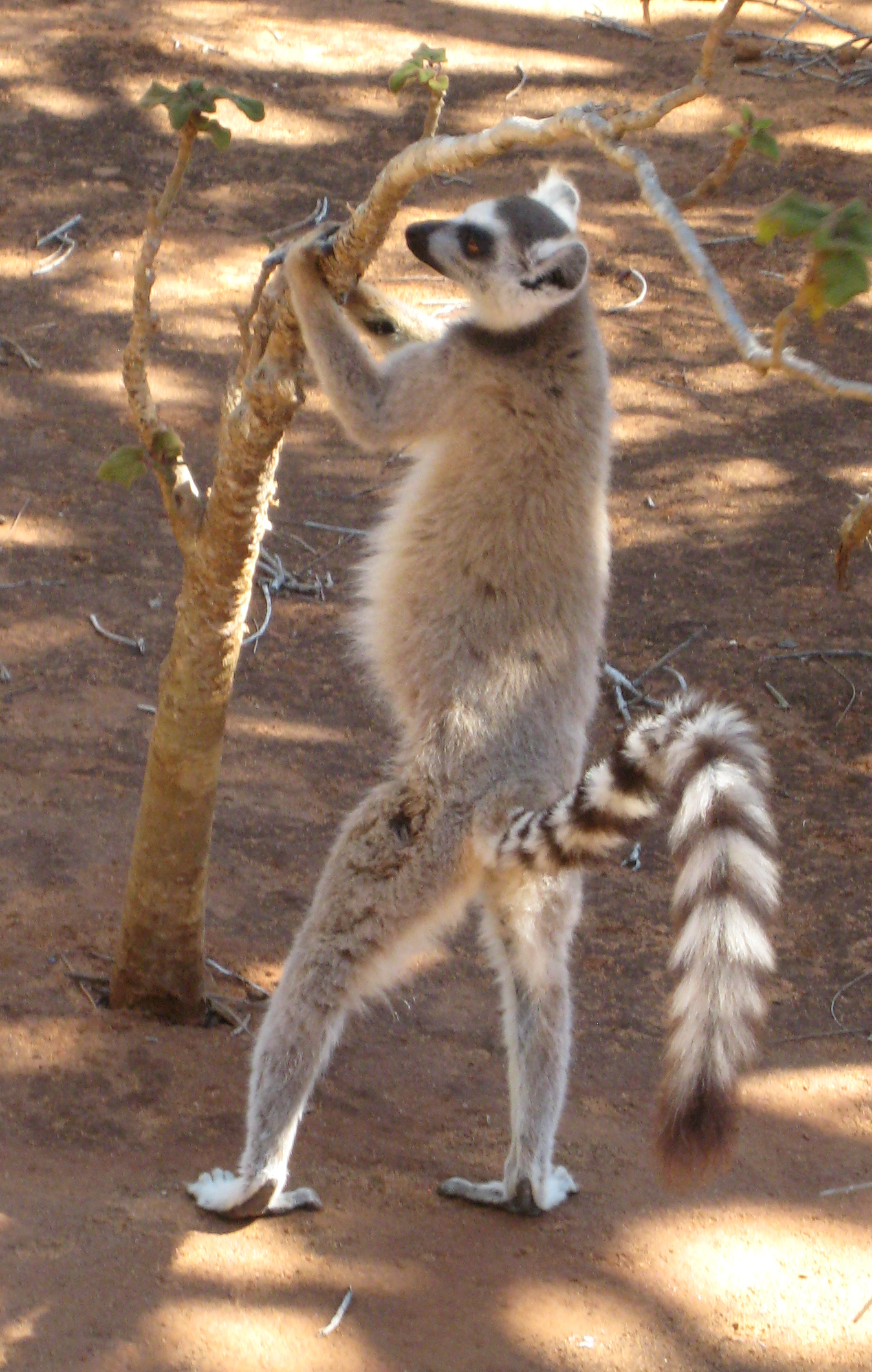 A male Ring-tailed Lemur (Lemur catta) scent-marks a young tree at Berenty in Madagascar